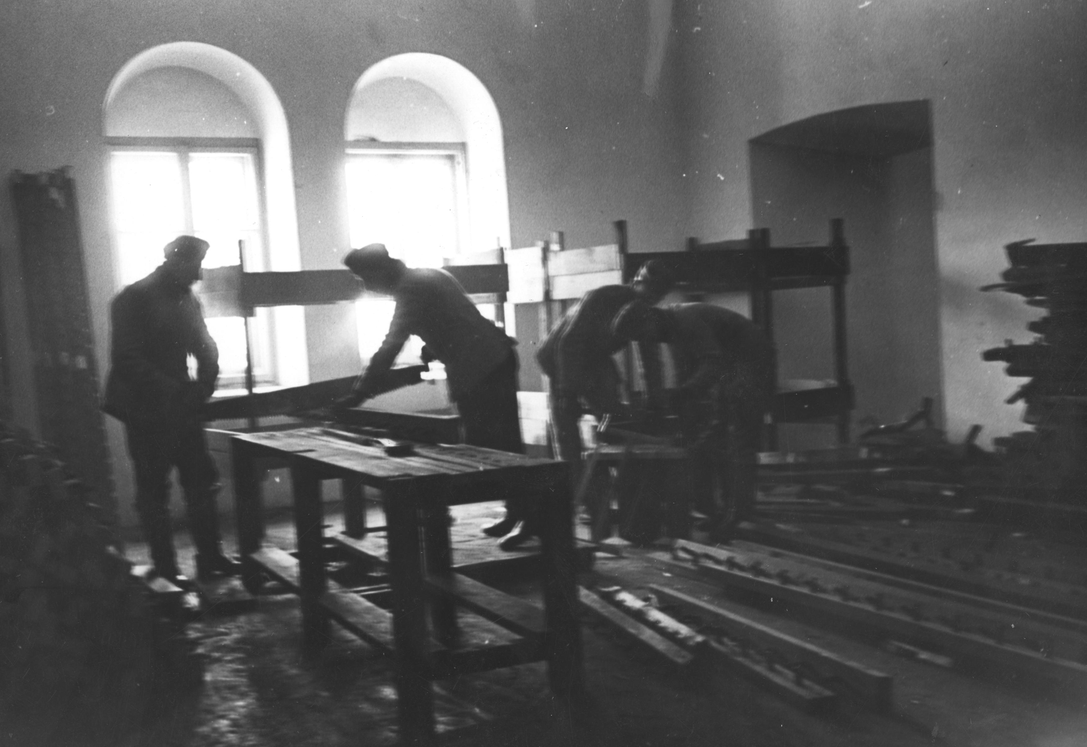 The factory was set up by the German Army. Published by Wydawnictwo Prasowe Kraków-Warszawa